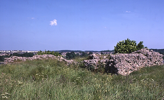 Elgin Castle These piles of rubble are the remains of what was once Elgin Castle. It stood on the top of Lady Hill, dominating the town. It met the same fate as many another mediaeval Scottish Castle; King Robert the Bruce could not afford the men to garrison it after capturing it from the English, so he had them tear it down to prevent the enemy re-occupying it.